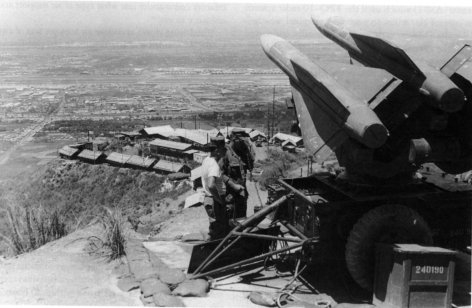 Marines of the 1st LAAM (Light Antiaircraft Missile) Battalion next to their HAWK surface-to-air guided missiles at the missile site overlooking the Da Nang Airbase from the west.